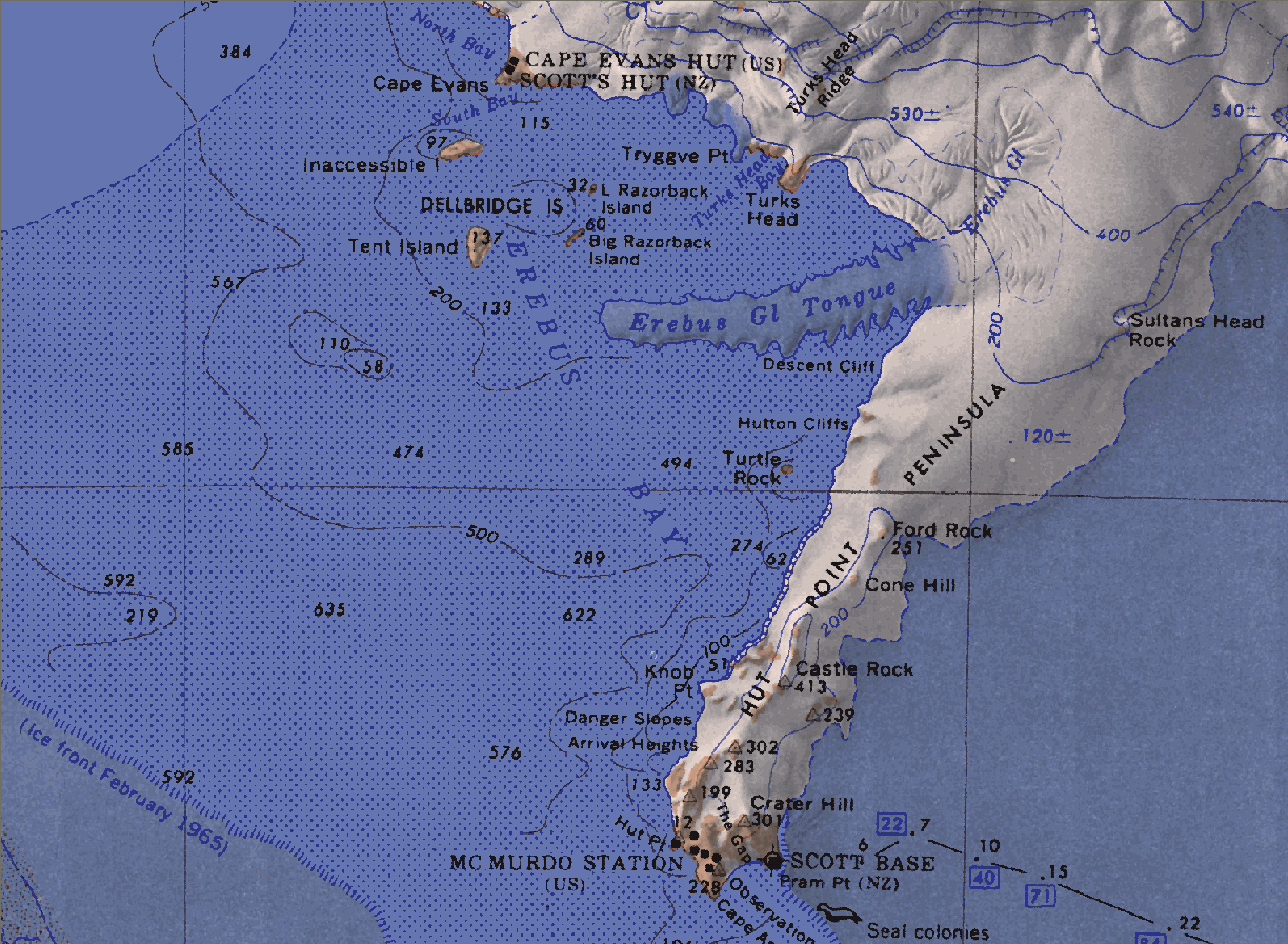 map of Dellbridge Islands (part of larger Ross Island map) original scale 1:250000